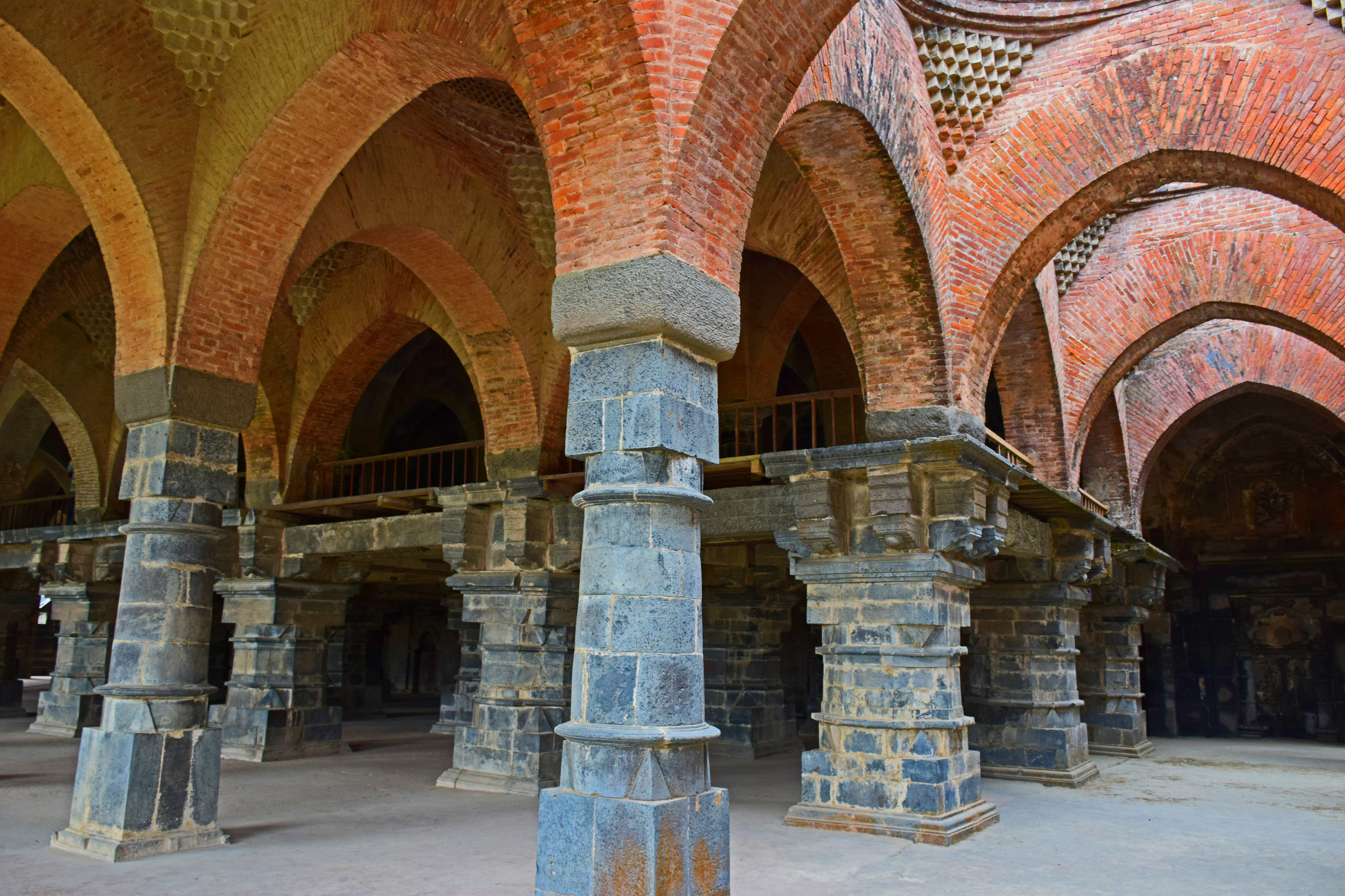 Interiors of Adina Mosque